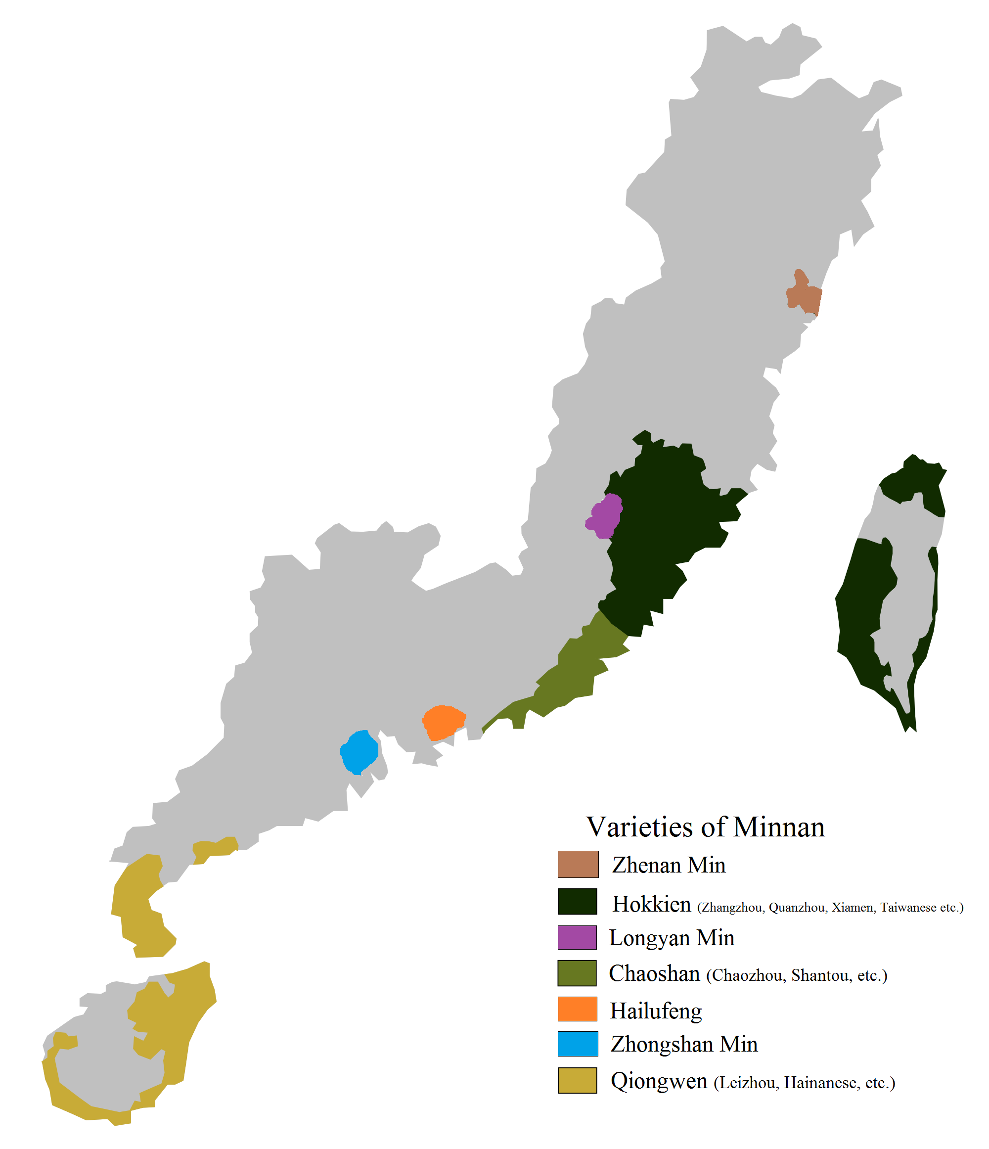 Varieties of the Minnan Macrolanguage.